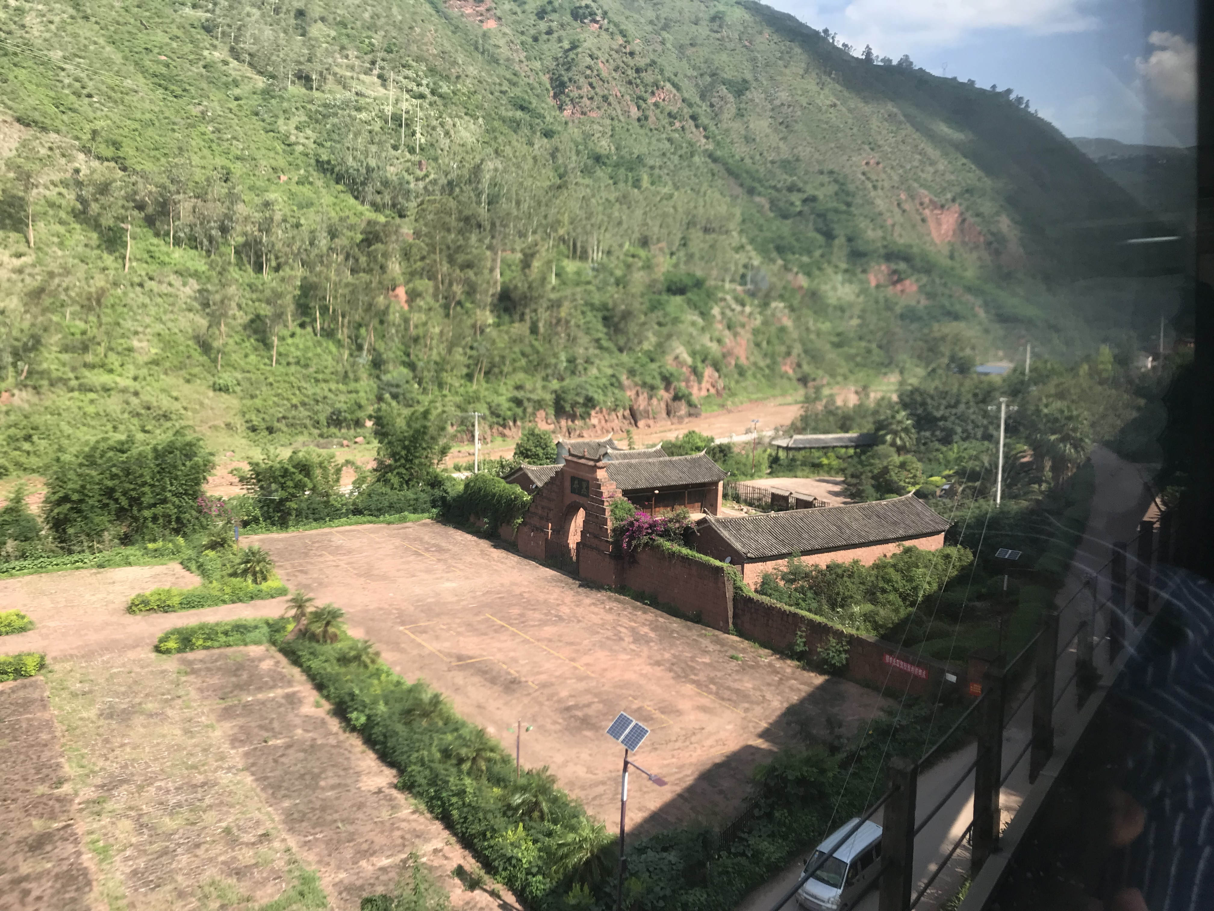 201908 Entrance of Heijing Ancient Town